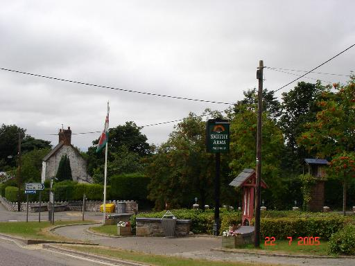 Rhuallt village centre. The crossroads at the centre of the village of Rhuallt